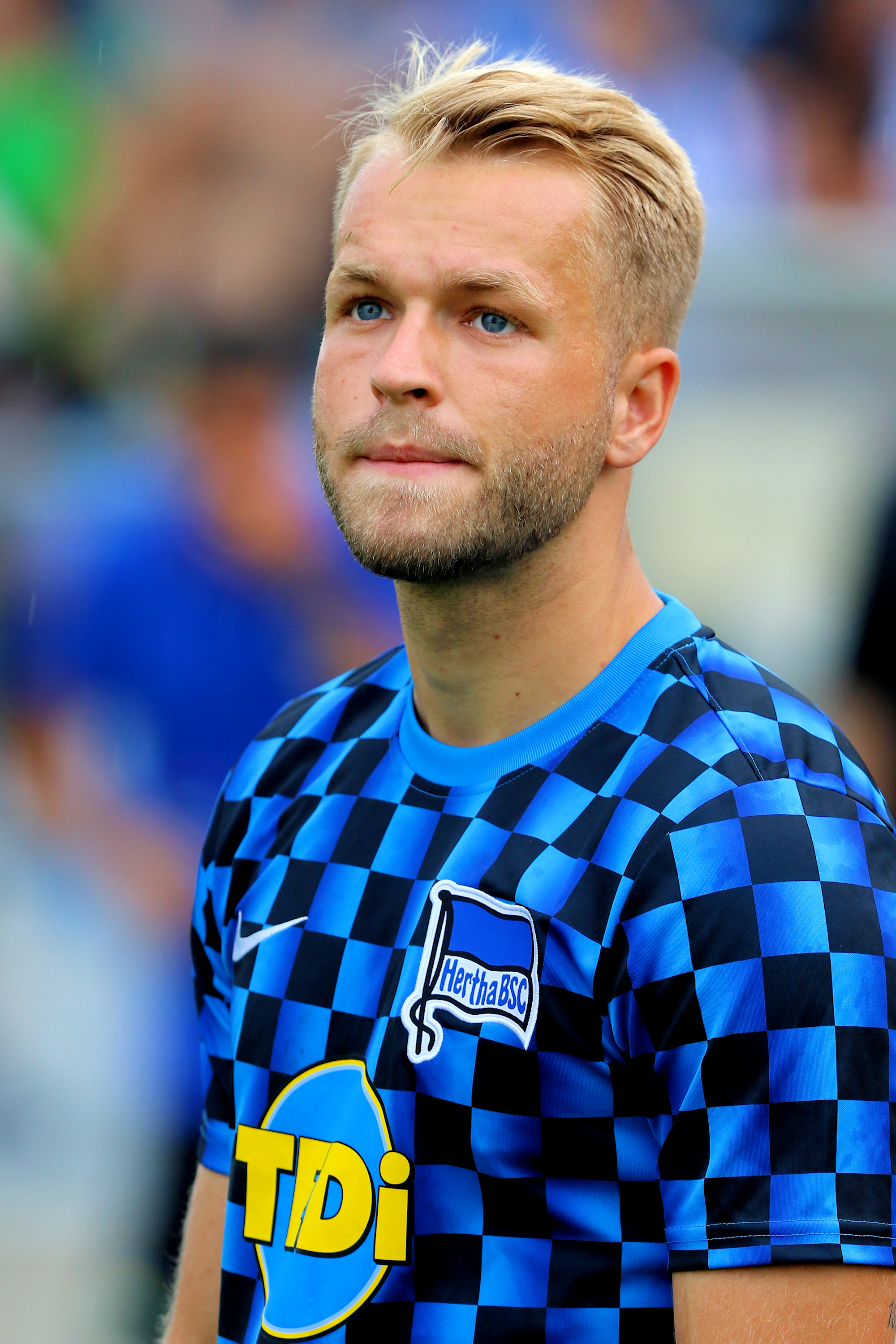 Friendly match Hertha BSC (blue-white shirts) vs. West Ham United (red-blue shirts) at 31-07-2019 3-5 (3-2) in the Sonnenseestadium in Ritzing. – The photo shows Pascal Köpke (Hertha BSC).